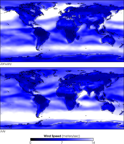 Global maps of average wind speed help researchers determine where to develop wind energy. Wind turbines (high-tech windmills) can generate power in places far from power plants and without an electricity grid—but planners need to know where there is sufficient wind for the turbines to operate efficiently. A team at NASA’s Langley Research Center developed these maps, and maps of solar insolation, and provide them free of charge. Private companies are using these data to design, build, and market new technologies for harnessing this energy.